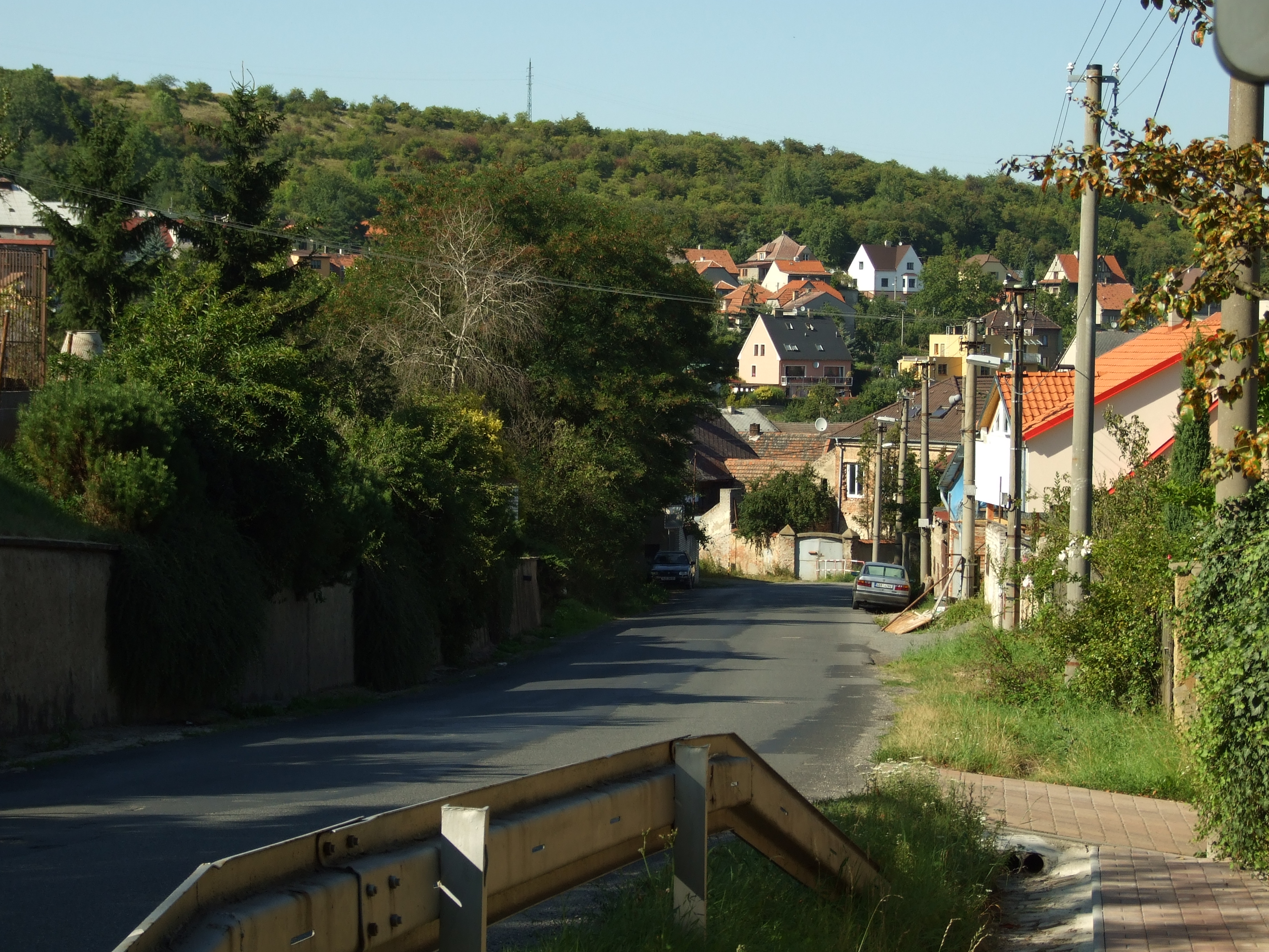 Libušín village seen from road to Kladno. Libušín is located in Kladno district, Central Bohemian region, CZ This photograph was taken within the scope of the 'Czech Municipalities Photographs' grant.